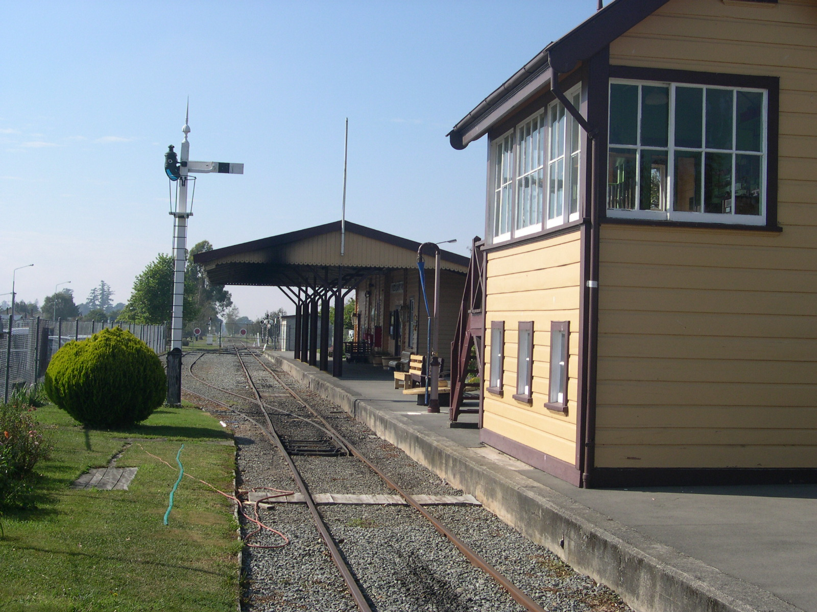 Pleasant Point Museum and Railway, South Island New Zealand